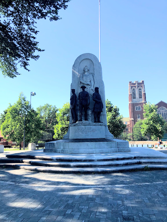 Peace Triumphant Statue located in Scoville Park in Oak Park, Illinois